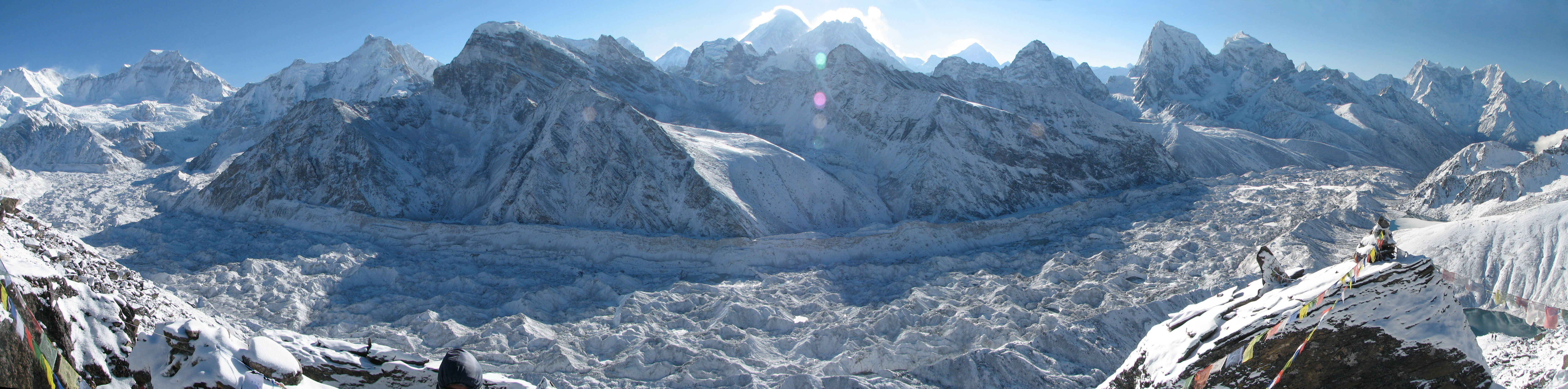 The sweep of the Ngozumba glacier (Nepal's longest) and encircling mountains clad in new snow as seen from Gokyo Ri just after sunrise. The sun rose just behind Everest (centre, left peak) and Nuptse/Lhotse (centre, right peaks). All the peaks are above 6000m. Main peaks visible (L to R) include (I think) Chakung (7029); Chunbu (6859); Cholo (6059), the closest at left of centre; Lobuche West (6145) and East (6119), centre; Everest, Nuptse and Lhotse tallest behind and above; Arakam Tse (6423); Cholatse (6440); and Taboche (6501). (if I've got them wrong, let me know...) You can see the 3rd Gokyo Lake at the bottom right